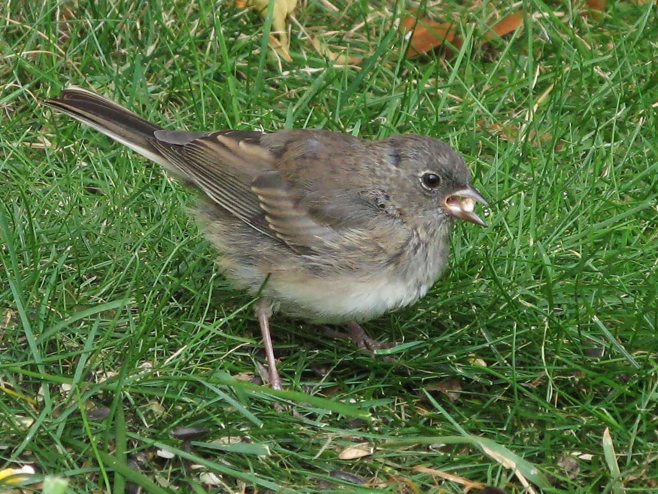 Junco hyemalis -- Junco ardoisé -- Slate-colored Junco Order Passeriformes -- Family Emberizidae Bas-Saint-Laurent -- Province de Québec -- Canada